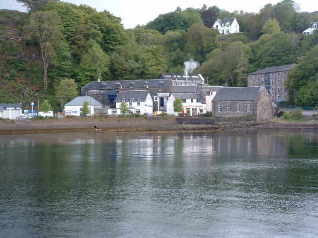 Tobermory for grown ups! On the other side of the bay from "Balamory" is the far more welcoming sight of the Tobermory distillery.